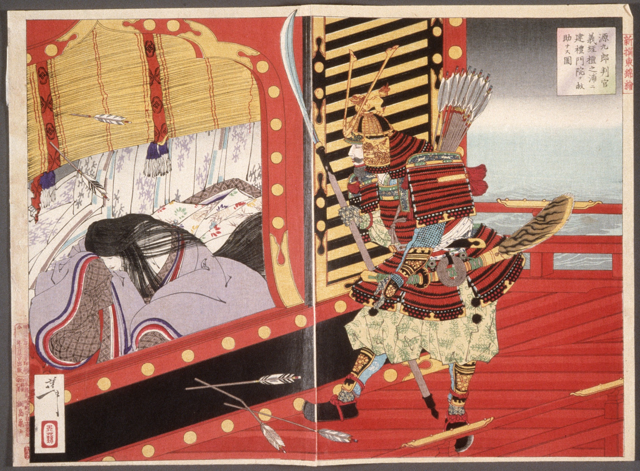 Japan, 3/1889 Prints; woodcuts Diptych (attached); color woodblock print Herbert R. Cole Collection (M.84.31.240) Japanese Art